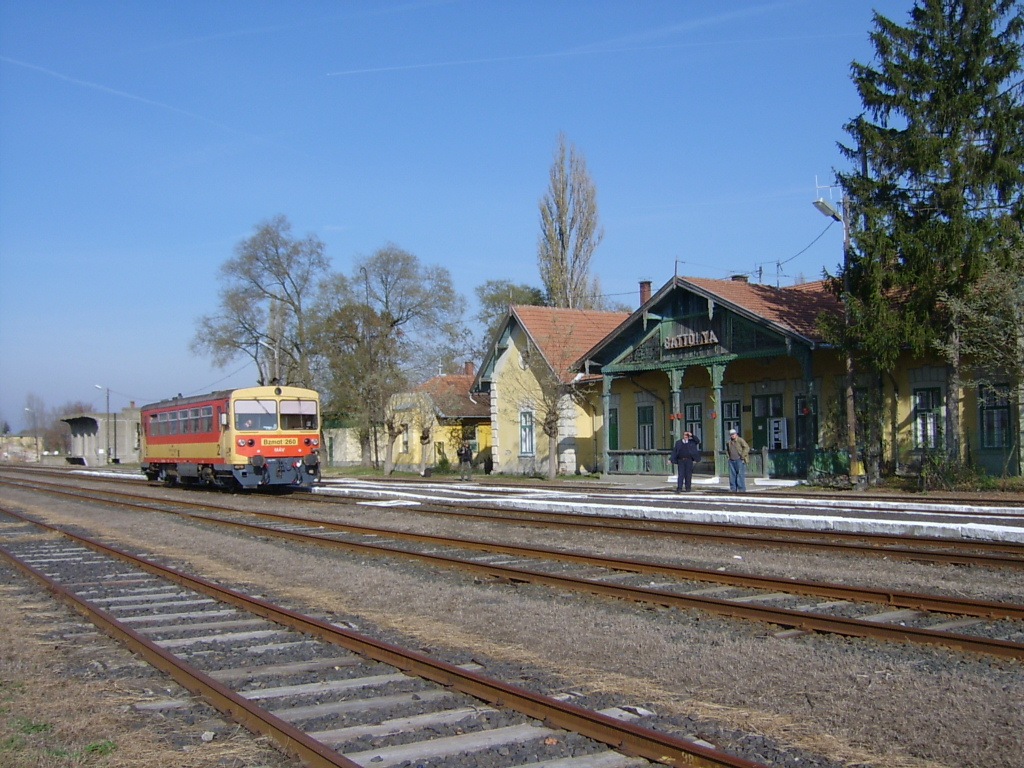 Railway station of Battonya, Hungary